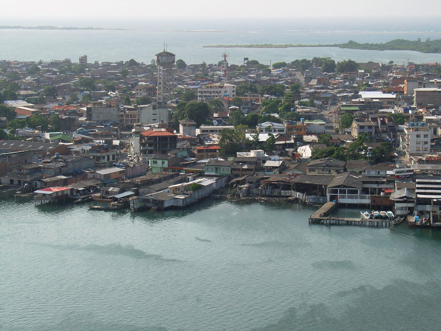 An aerial view of Tumaco, Colombia.